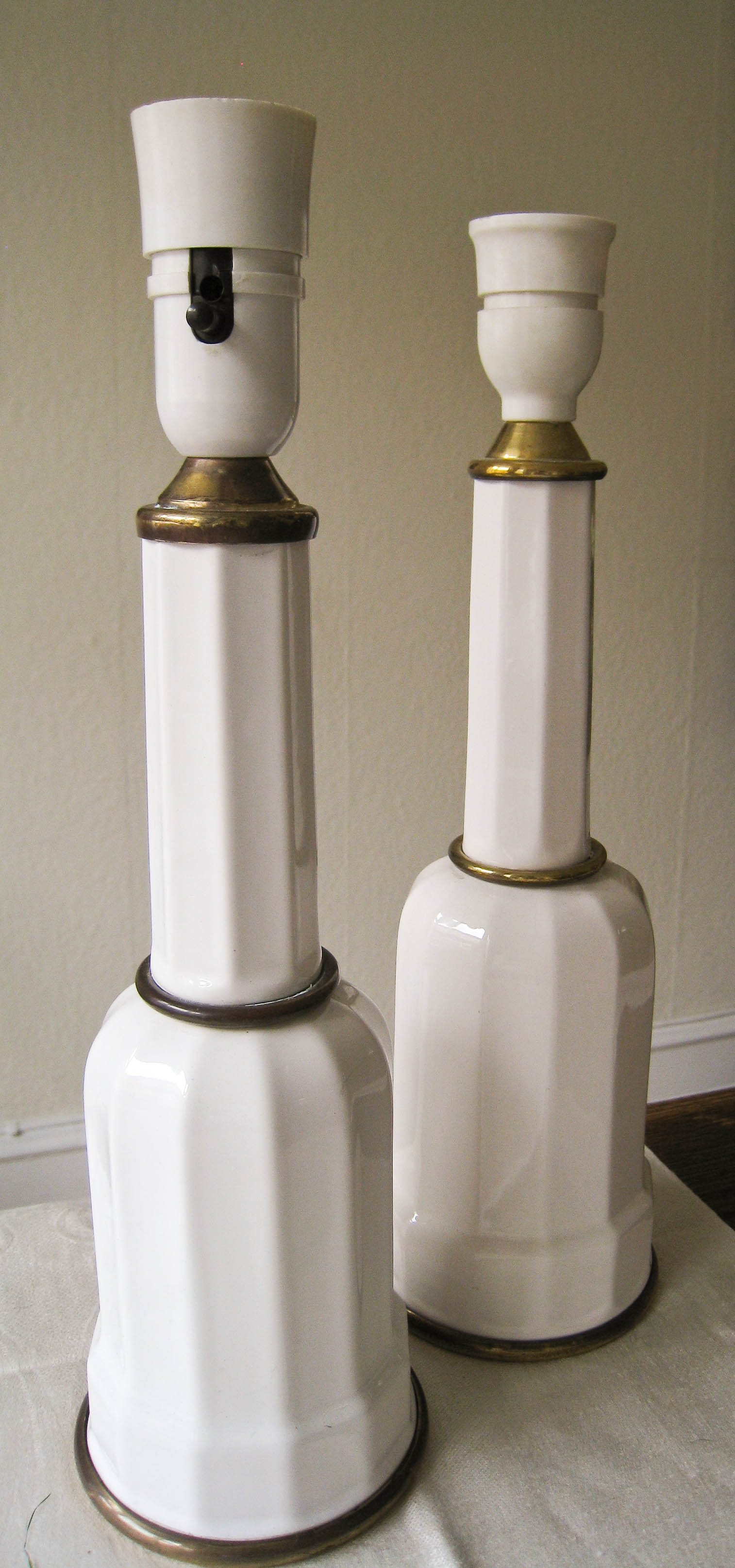 Heiberglamp (newer model for electricity)